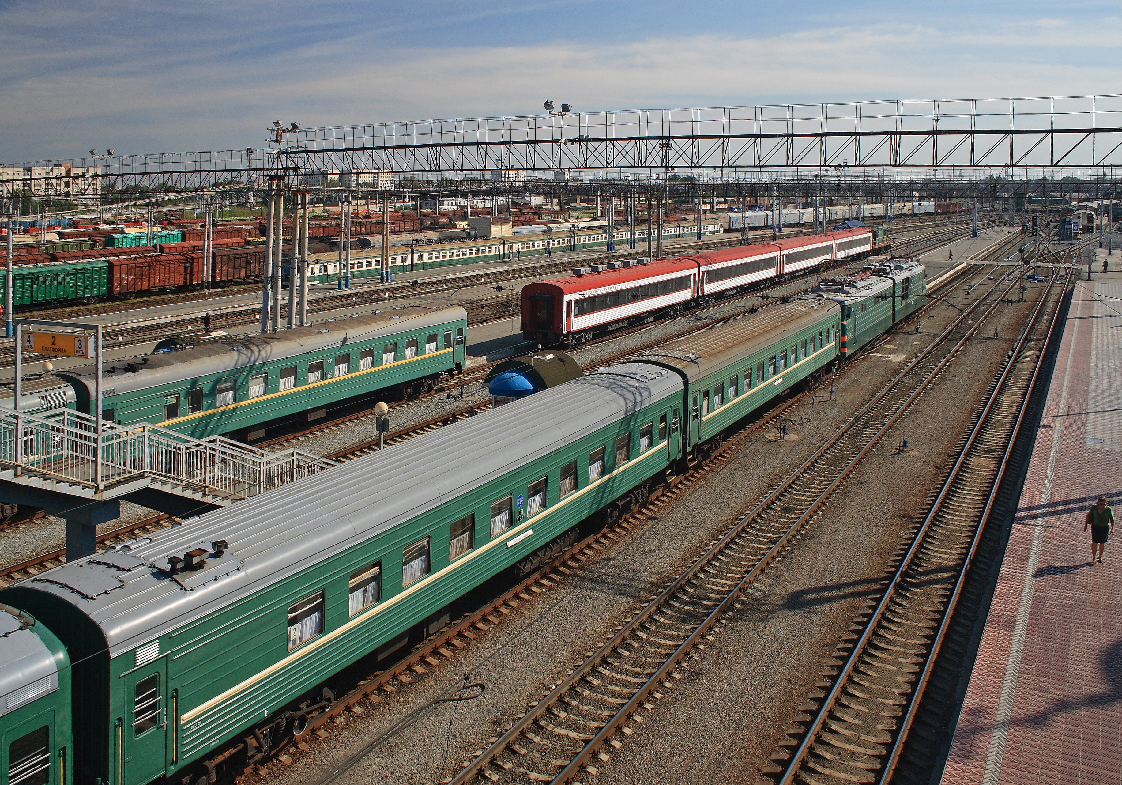 Chelyabinsk station